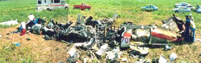 Wreckage of Continental Express Flight 2574